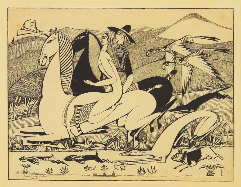 The Hawks